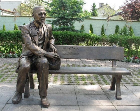 Memorial of Doctor Jozef Psarski in Ostrolęka, Poland. Made by sculptor Michał Selerowski